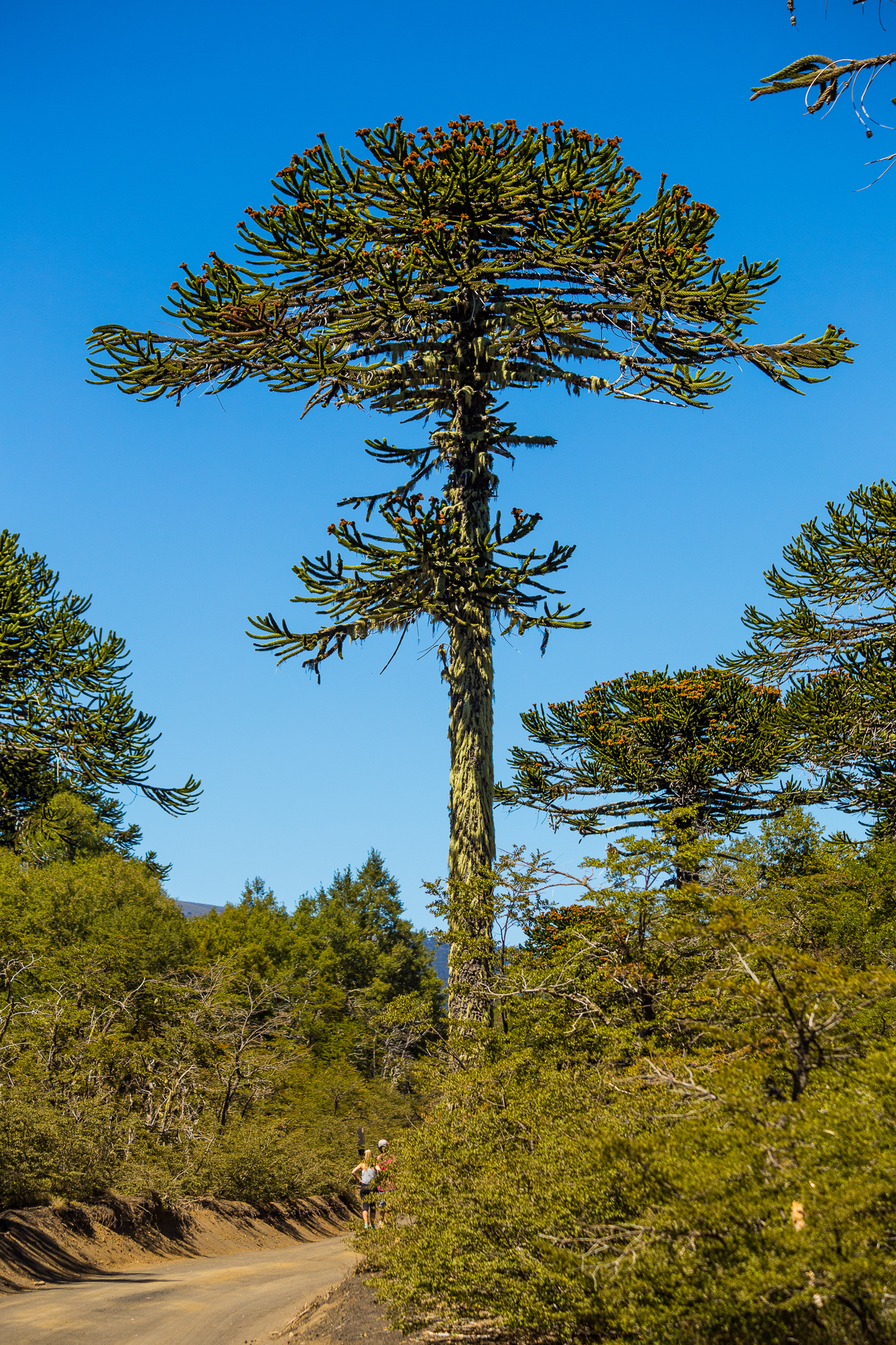 Some Araucaria tree located in the Conguillío National Park, Chile